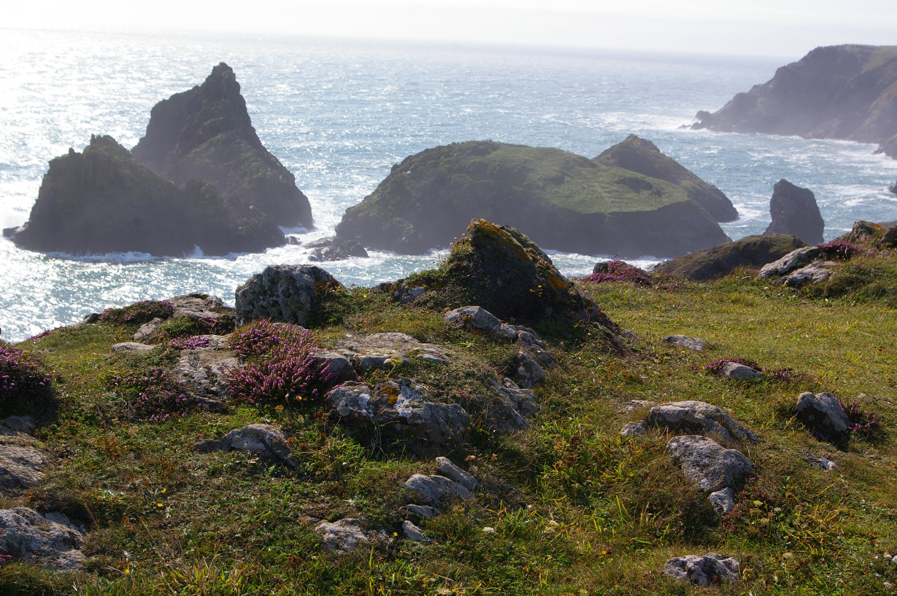 Kynance Cove